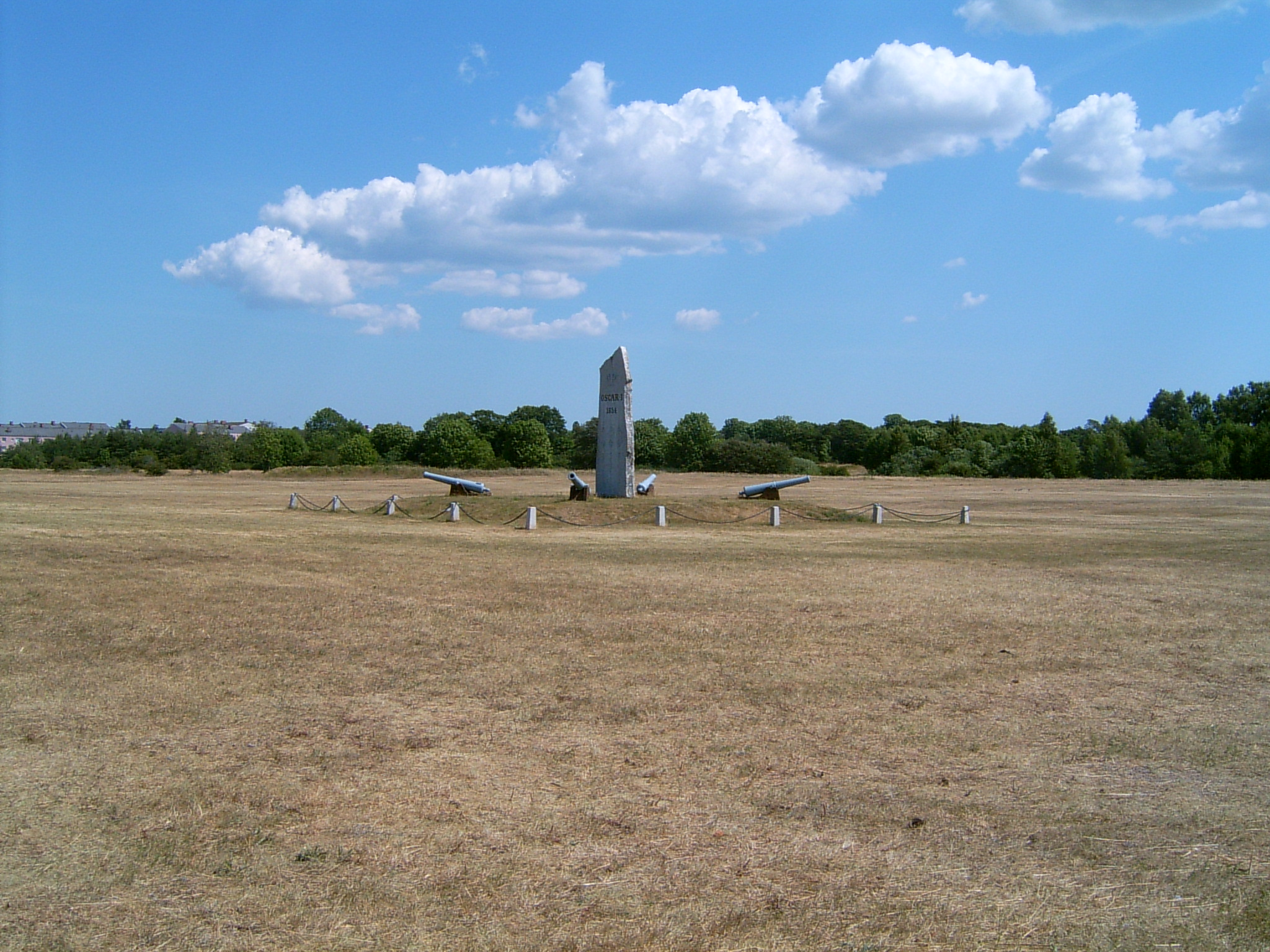 The Oskar-stone (Oscarstenen) in Visby, Sweden.